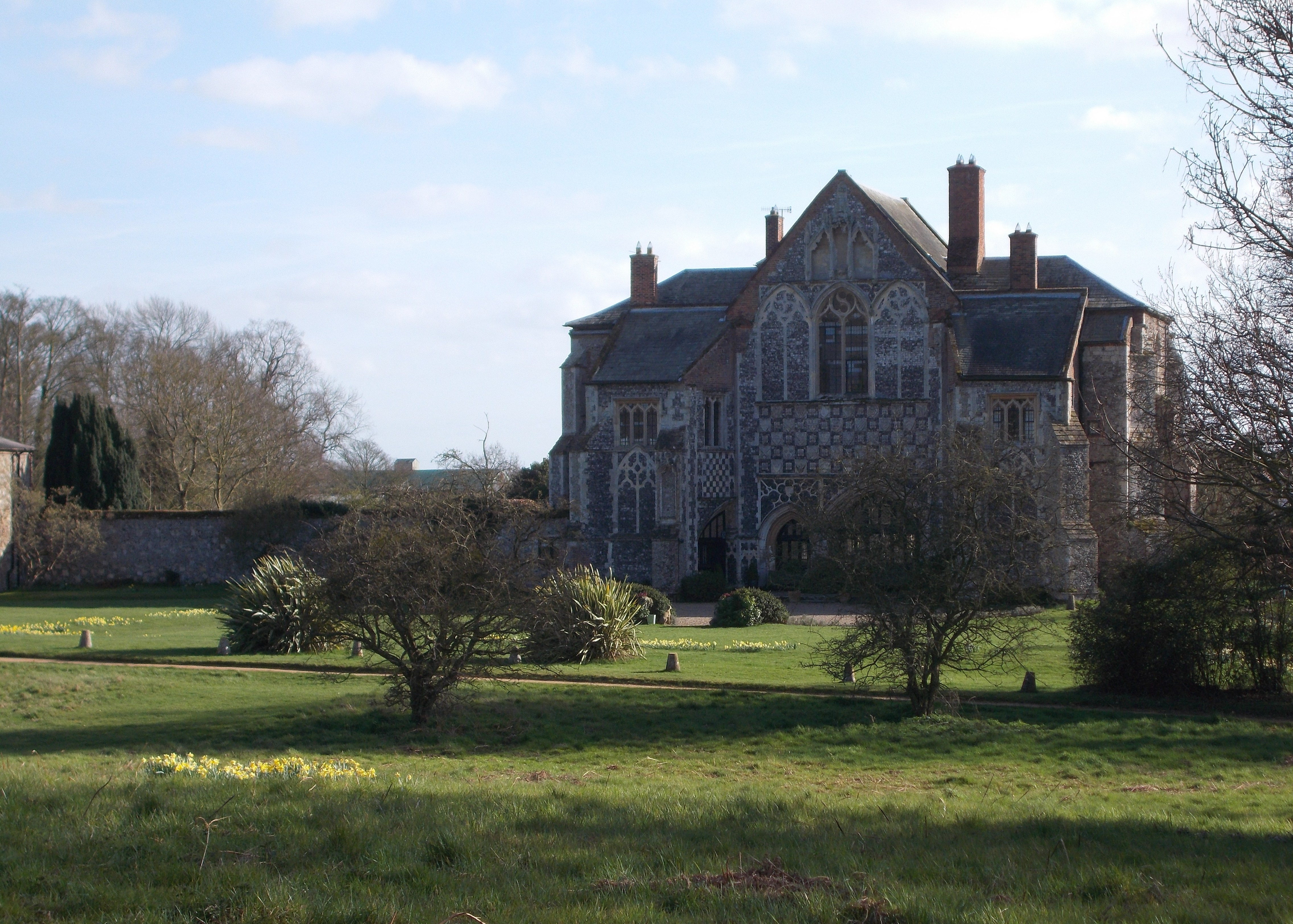 Frontage of the 14th century gatehouse of Butley Priory in Suffolk, England, converted into a private dwelling.